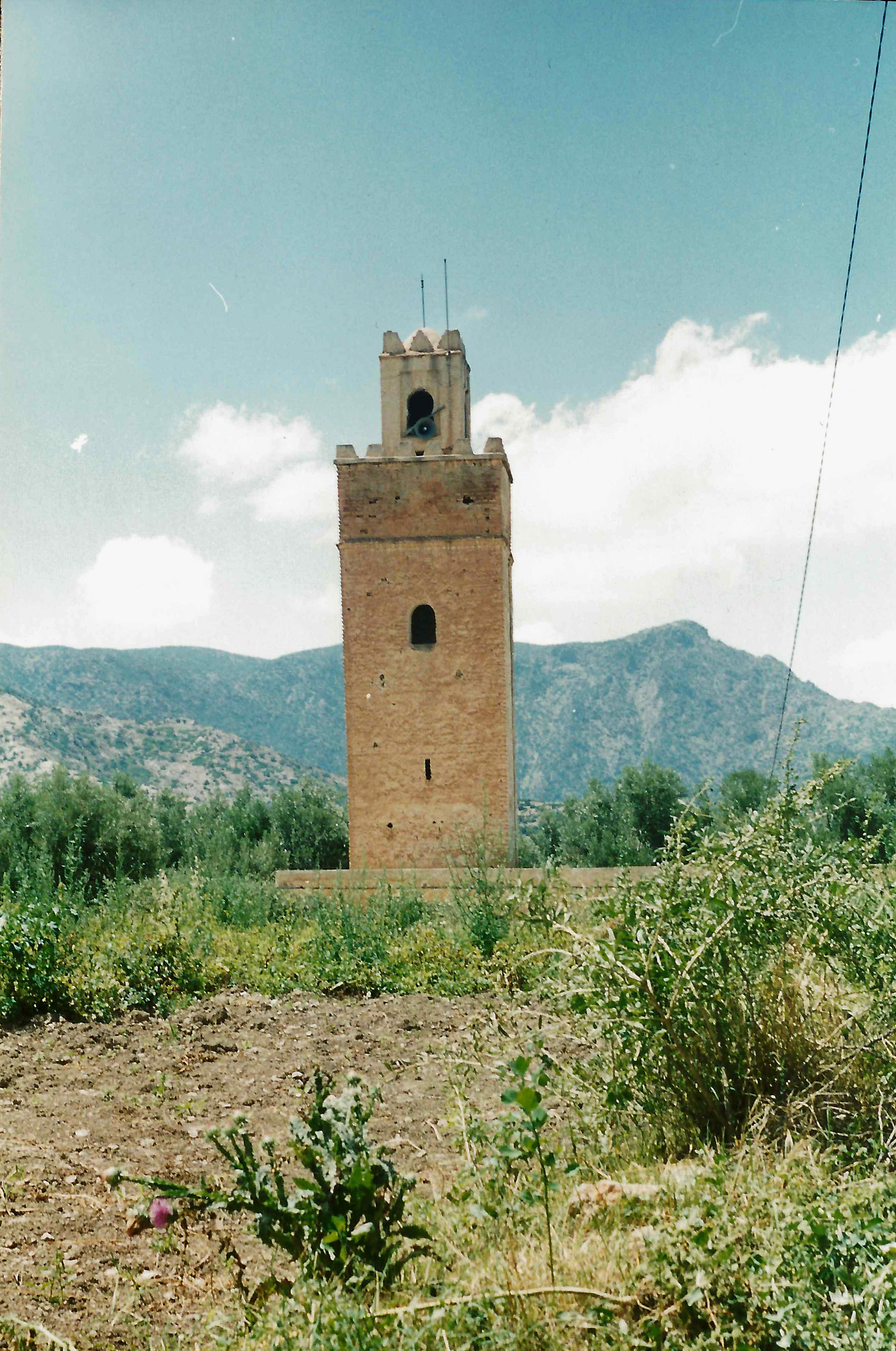 The mosque in the kasbah of Marinid in Debdou region Oriental of Morocco.